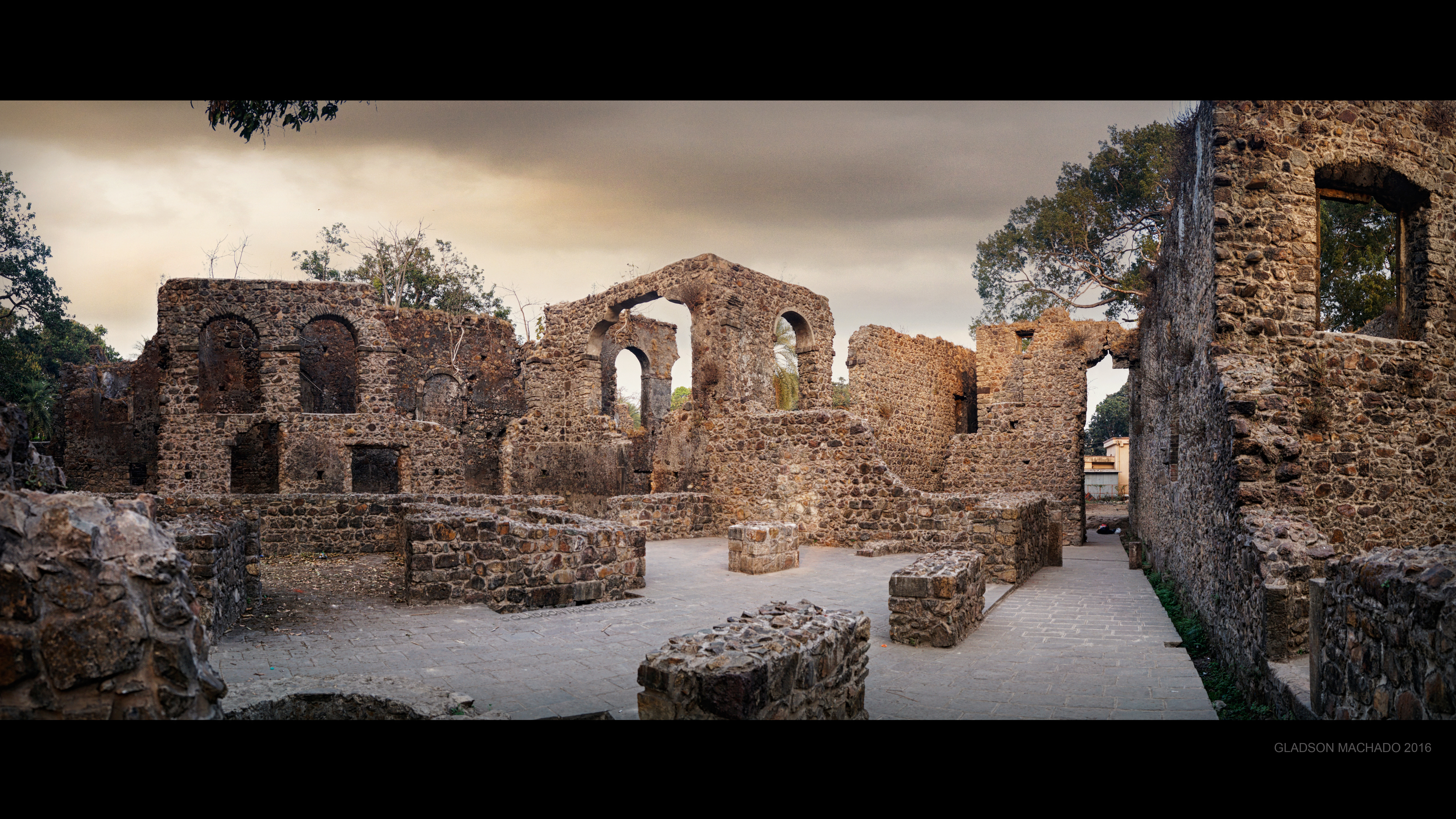 Panaoramic view from inside one of the buildings at Vasai Fort.